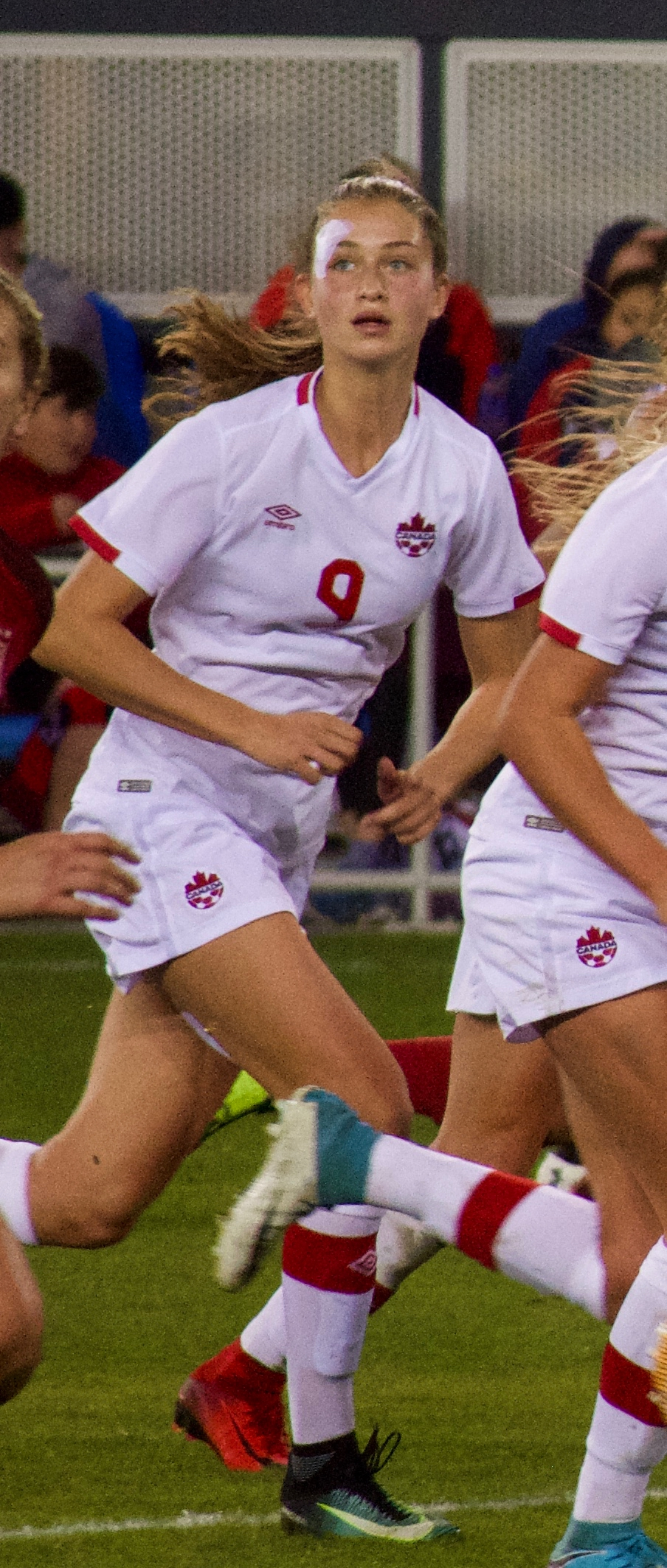 Jordyn Huitema playing in a friendly at Avaya Stadium, San Jose, California, on 12 Nov 2017. Her head is bandaged. She is running in a crowd attempting to score off of a Canada free kick.